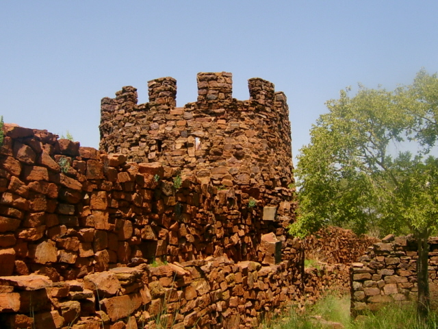 Fort Merensky built near Botshabelo, near Middelburg, Mpumalanga, South Africa